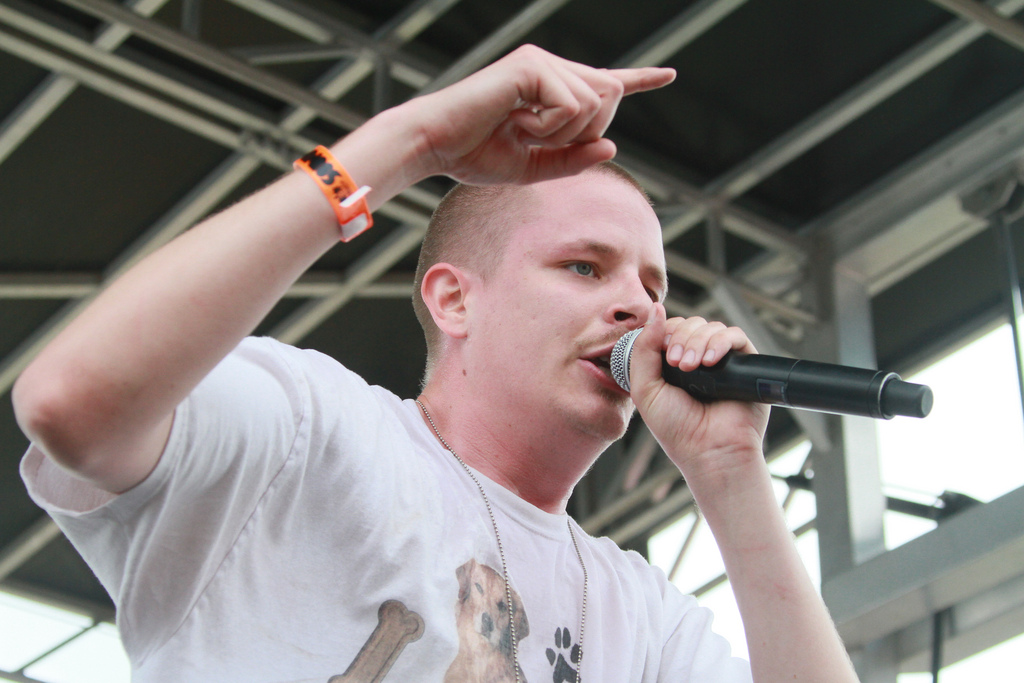 Prof in concert at Sounset Music Festival in Shakopee, Minnesota in 2010